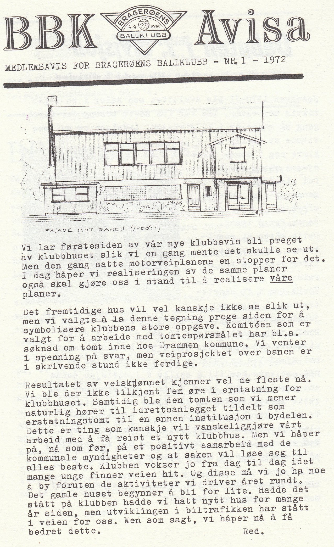 Club newspaper of Bragerøens Ballklubb, Drammen. 1972.